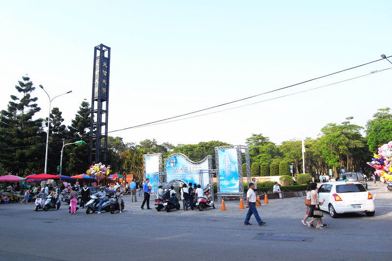 Yuan Ze University